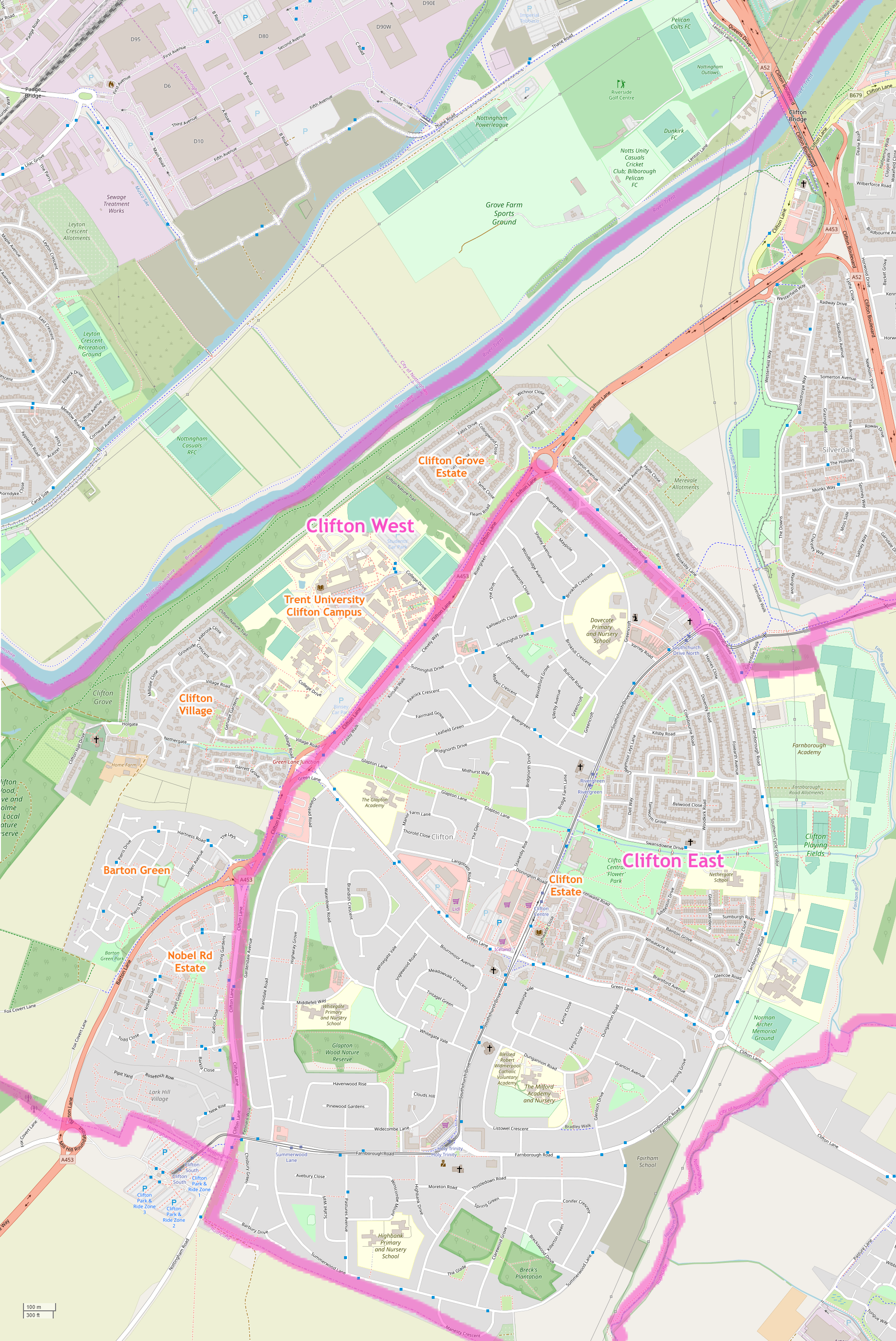 Map of Clifton, Nottingham showing local government wards and neighbourhoods